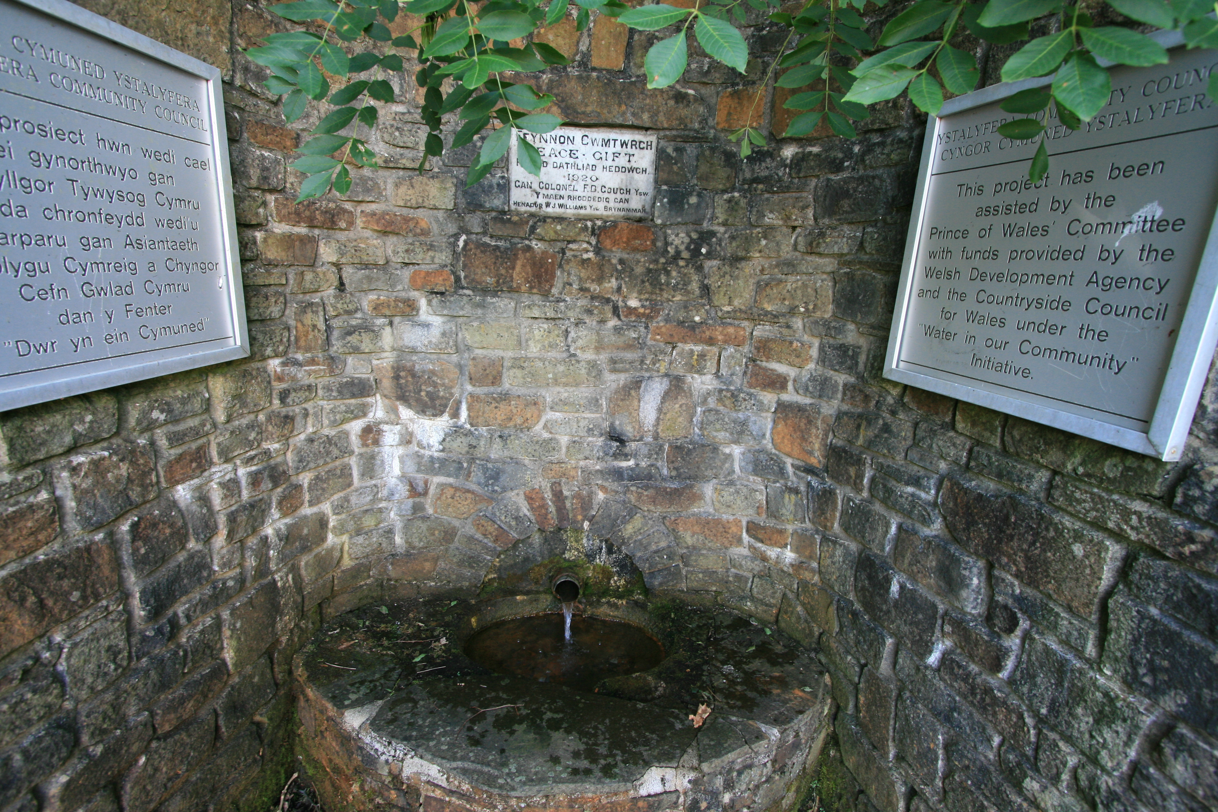 Cwmtwrch Spring / Ffynon by Darren Wyn Rees at Aberdare Blog